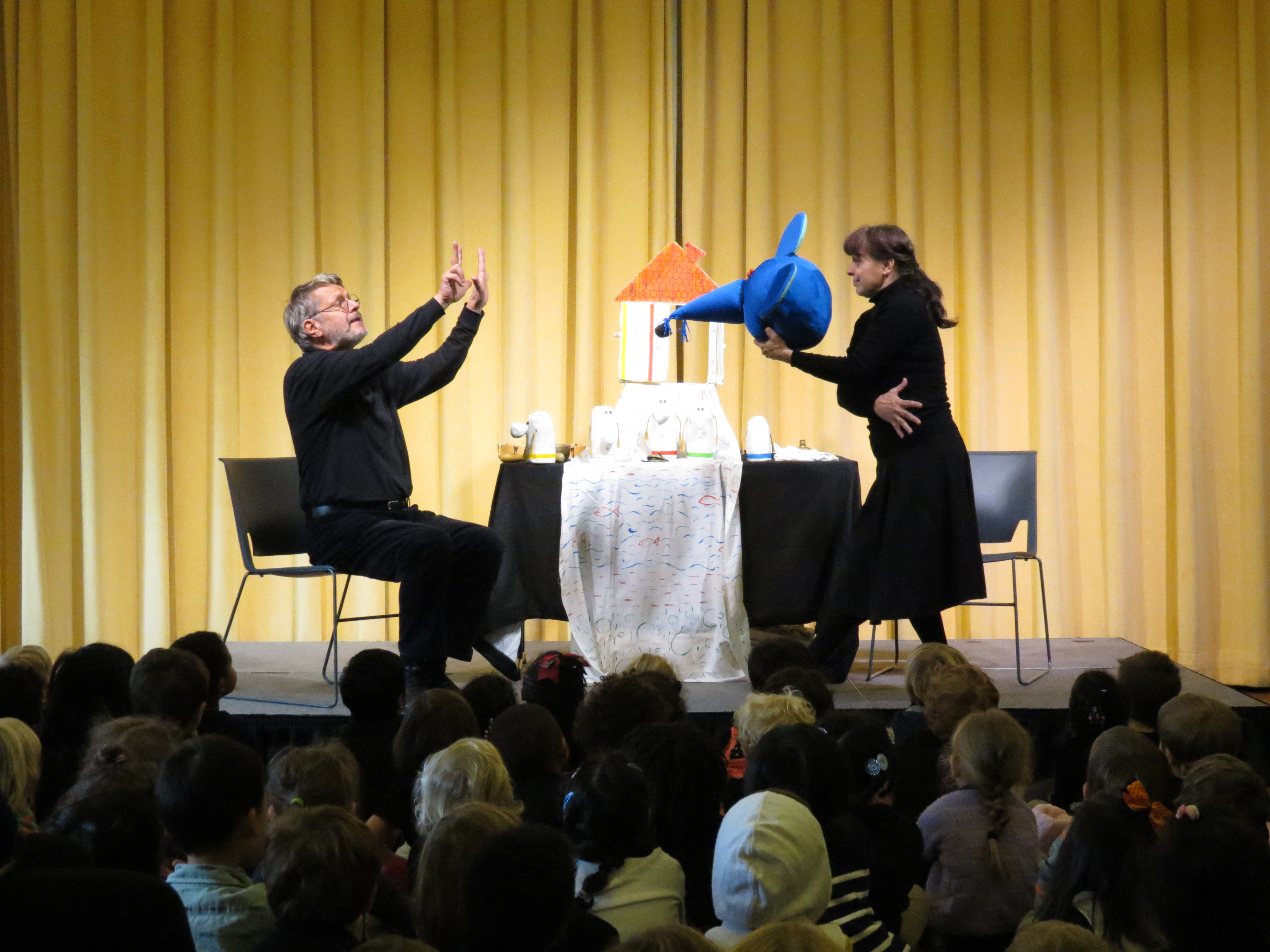 zapik theatre at hill center